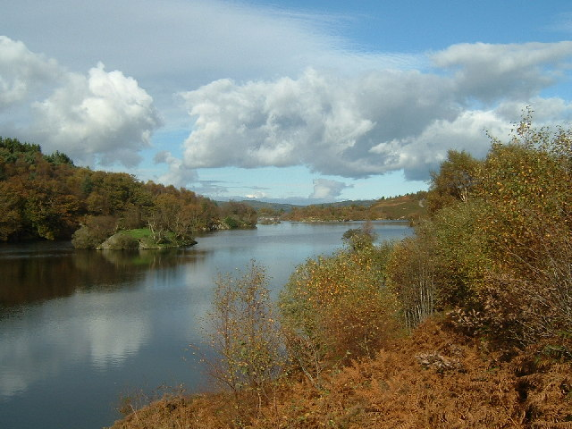 Llyn Elsi. Looking North towards the Monument, small island left of picture.